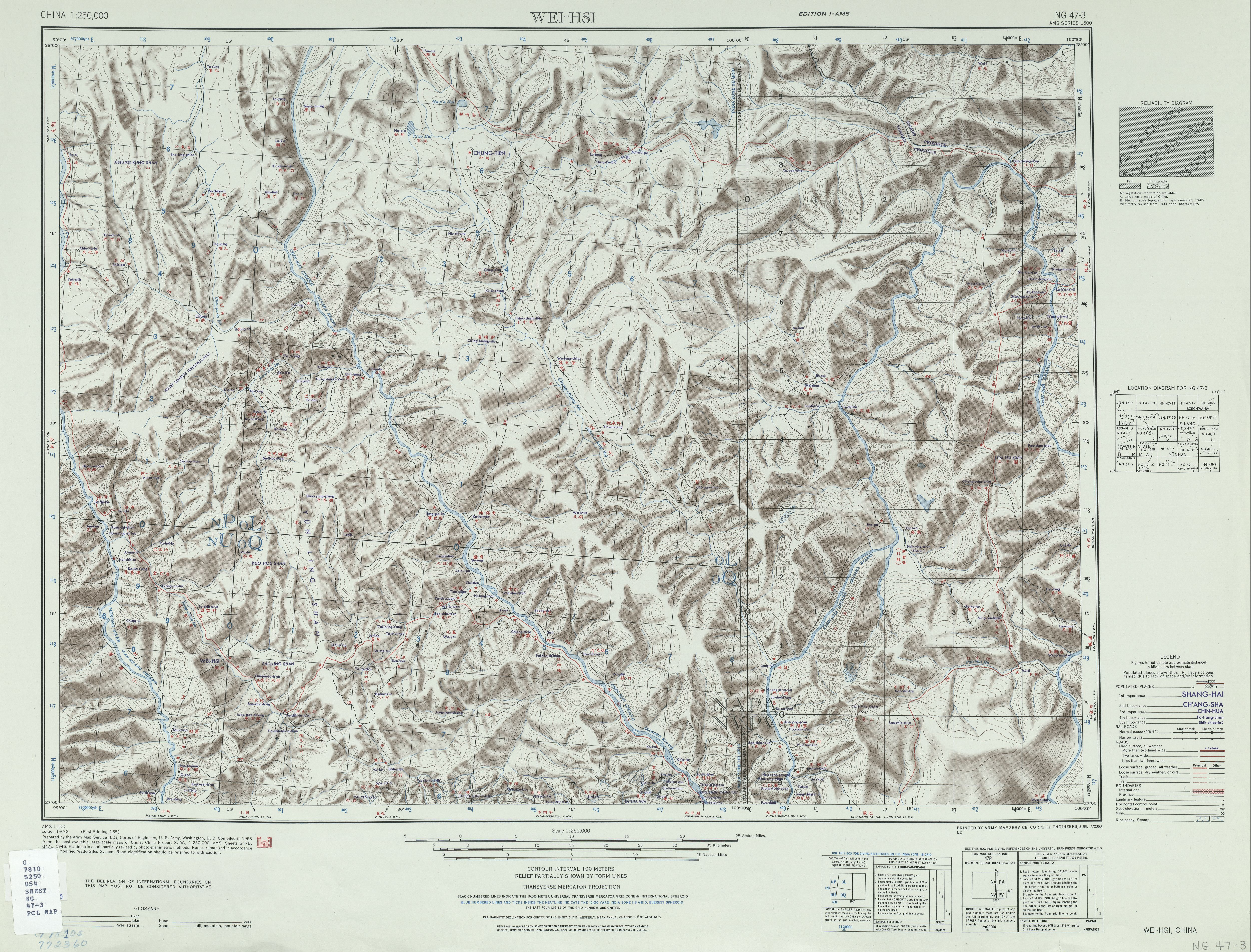 Map of Wexi (Wei-hsi) area, Yunnan